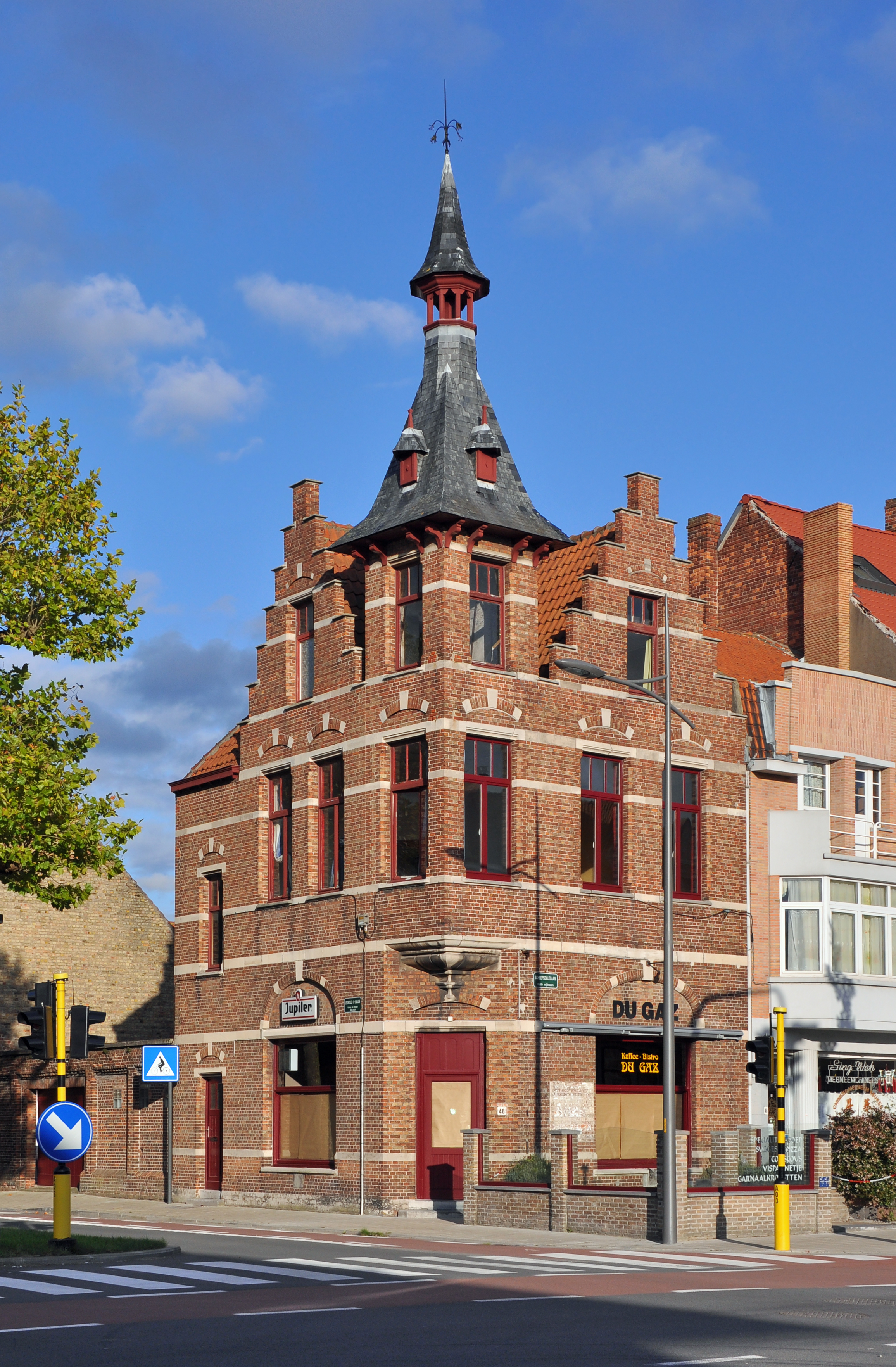 Bruges (Belgium): Café du Gaz, Scheepsdalelaan